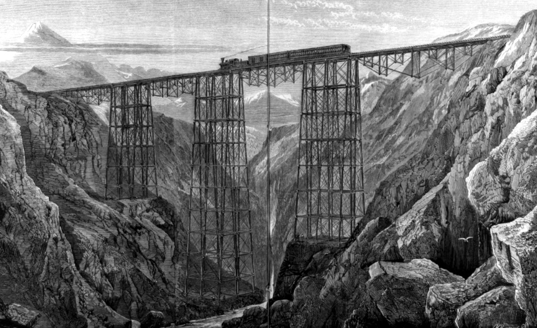 First Verrugas Viaduct (1873-1889)